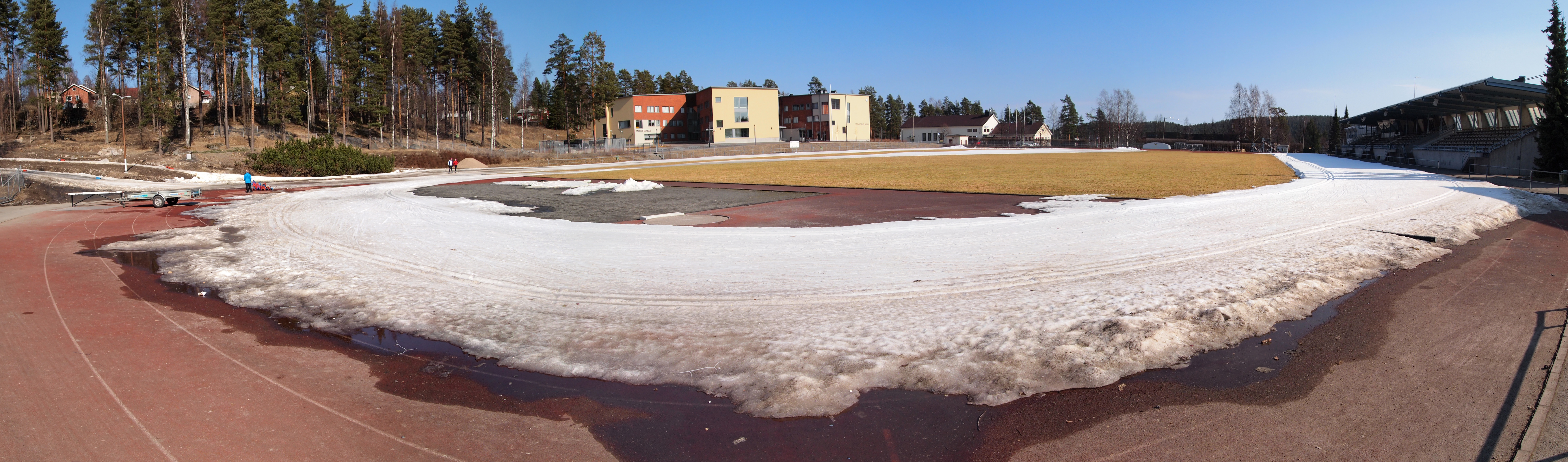 Vaajakoski sports park, Jyväskylä. On the sports field is snow and ski track. On the other side of the field is a school.